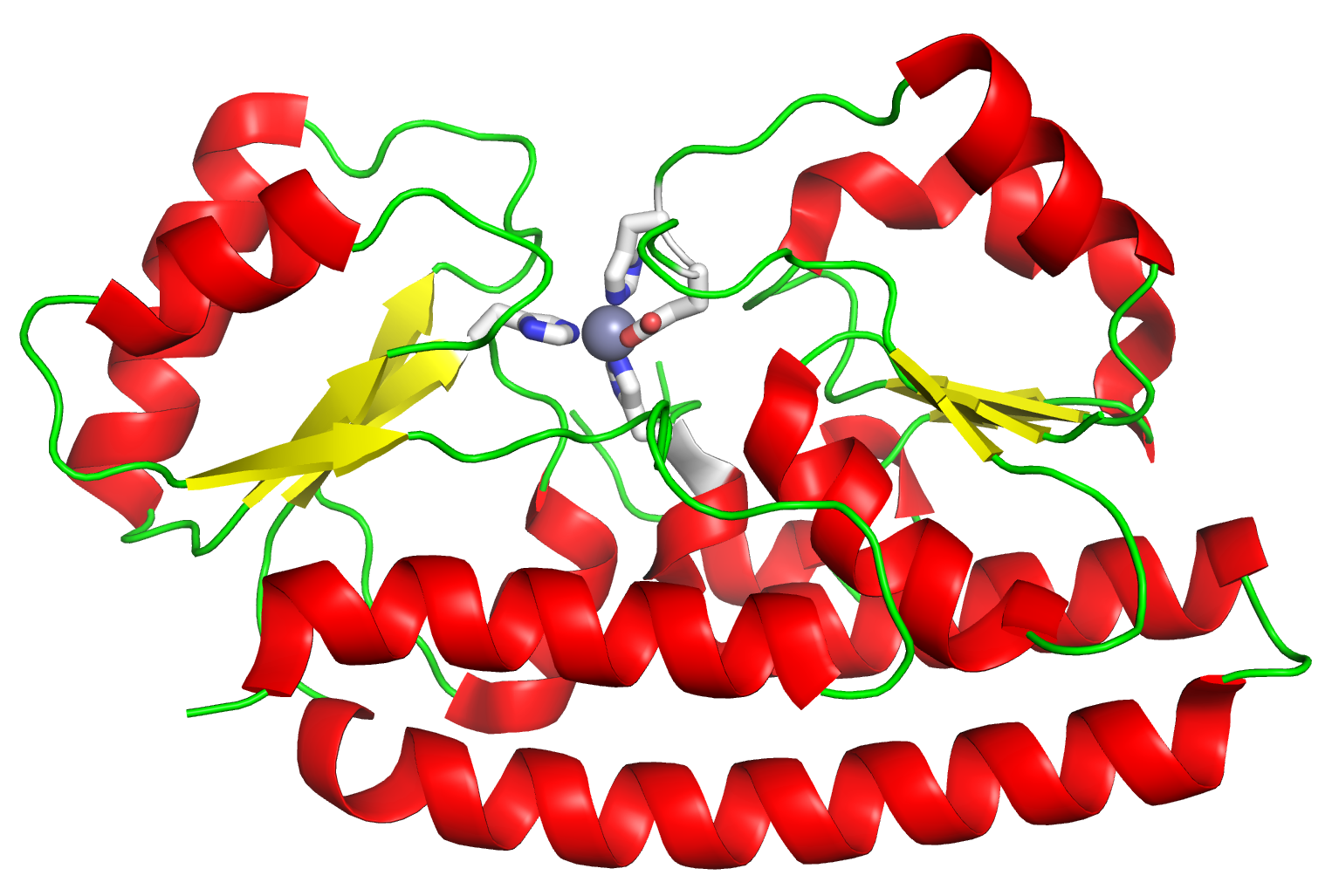 The crystal structure of the ZnuA zinc-binding protein, part of the ZnuABC zinc transporter, from E. coli. Zinc is shown as a gray sphere and the four coordinating residues are shown in white. Rendered with PyMol from PDB ID 2OSV.